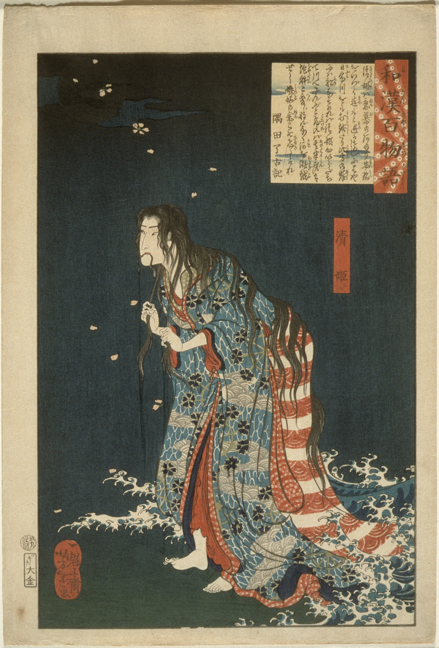 Japan, 1865, 9th month Series: One Hundred Ghost Tales from China and Japan Prints; woodcuts Color woodblock print Herbert R. Cole Collection (M.84.31.125) Japanese Art 安珍・清姫伝説より。